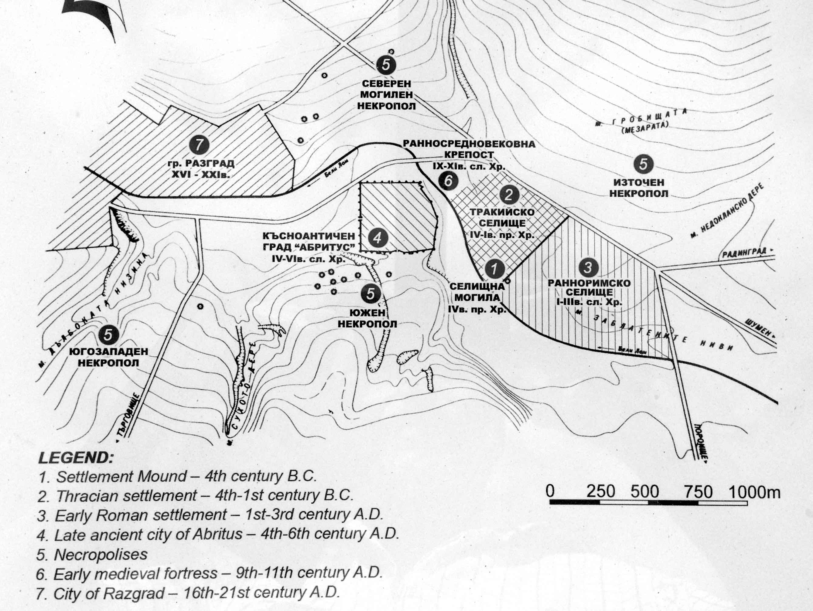 Map of surroundings of Abritus